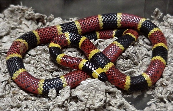 Photographer: LA Dawson Animal courtesy of Austin Reptile Service.